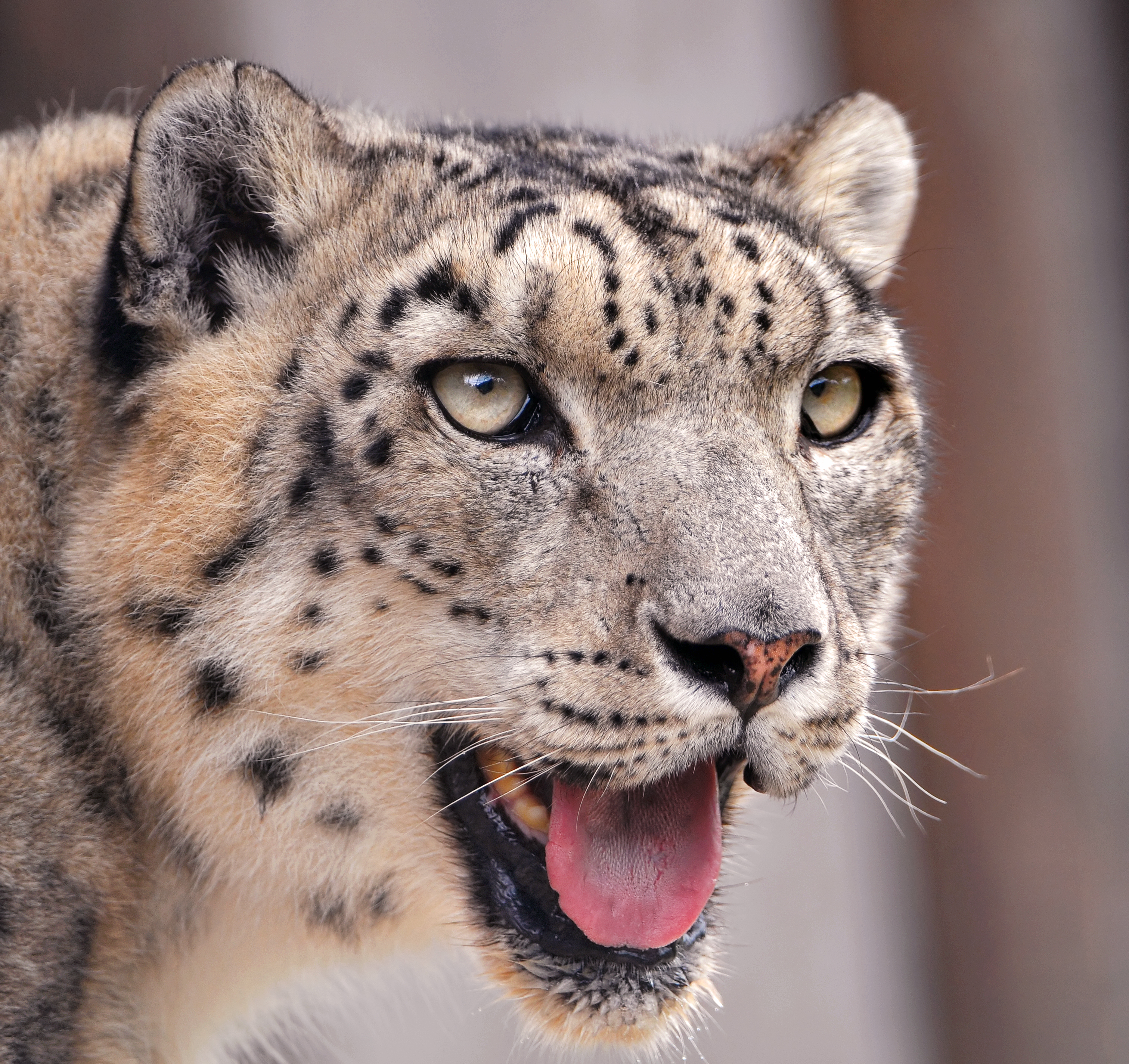 Portrait of a male snow leopard (Panthera uncia) of the Rheintal zoo.